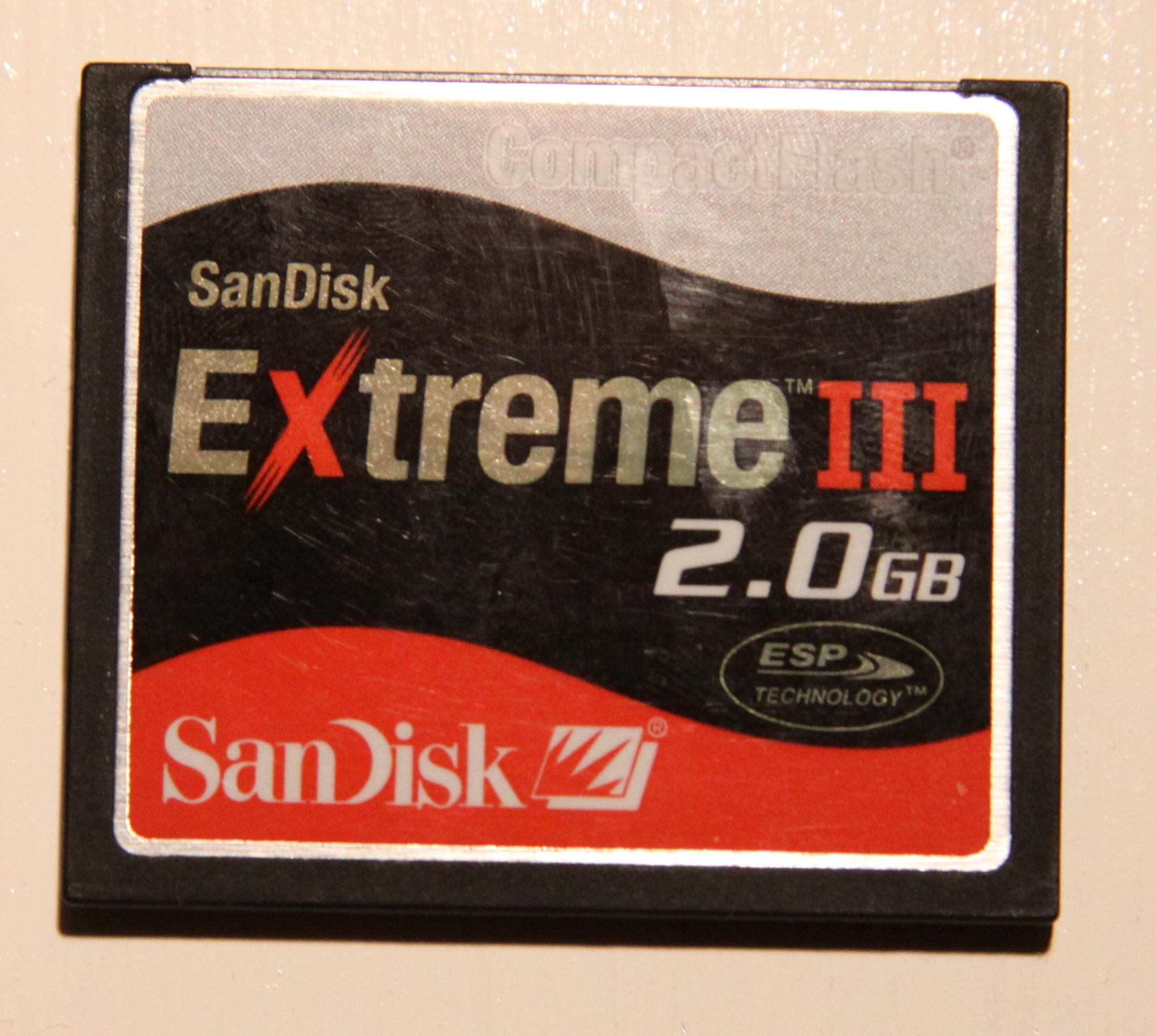 CompactFlash 2Gb from SanDisk